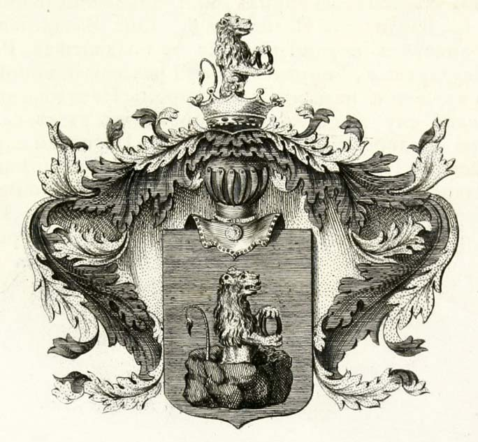 Coat of Arms of Nelidovy family